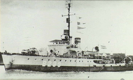 AWM Caption: BATHURST CLASS MINESWEEPER CORVETTE HMAS CAIRNS. CAIRNS WAS BUILT BY WALKERS LTD OF MARYBOROUGH, QUEENSLAND, AND LAUNCHED ON 1941-10-07. DURING WORLD WAR 2 SHE SAW SERVICE IN MOST THEATRES OF WAR EVENTUALLY BEING PAID OFF IN 1945-12. ON 1946-01-17 CAIRNS WAS SOLD TO THE ROYAL NETHERLANDS NAVY AND RENAMED AMBON AND THEN ON 1950-04-06 TRANSFERRED TO THE INDONESIAN NAVY AND RENAMED BANTENG.